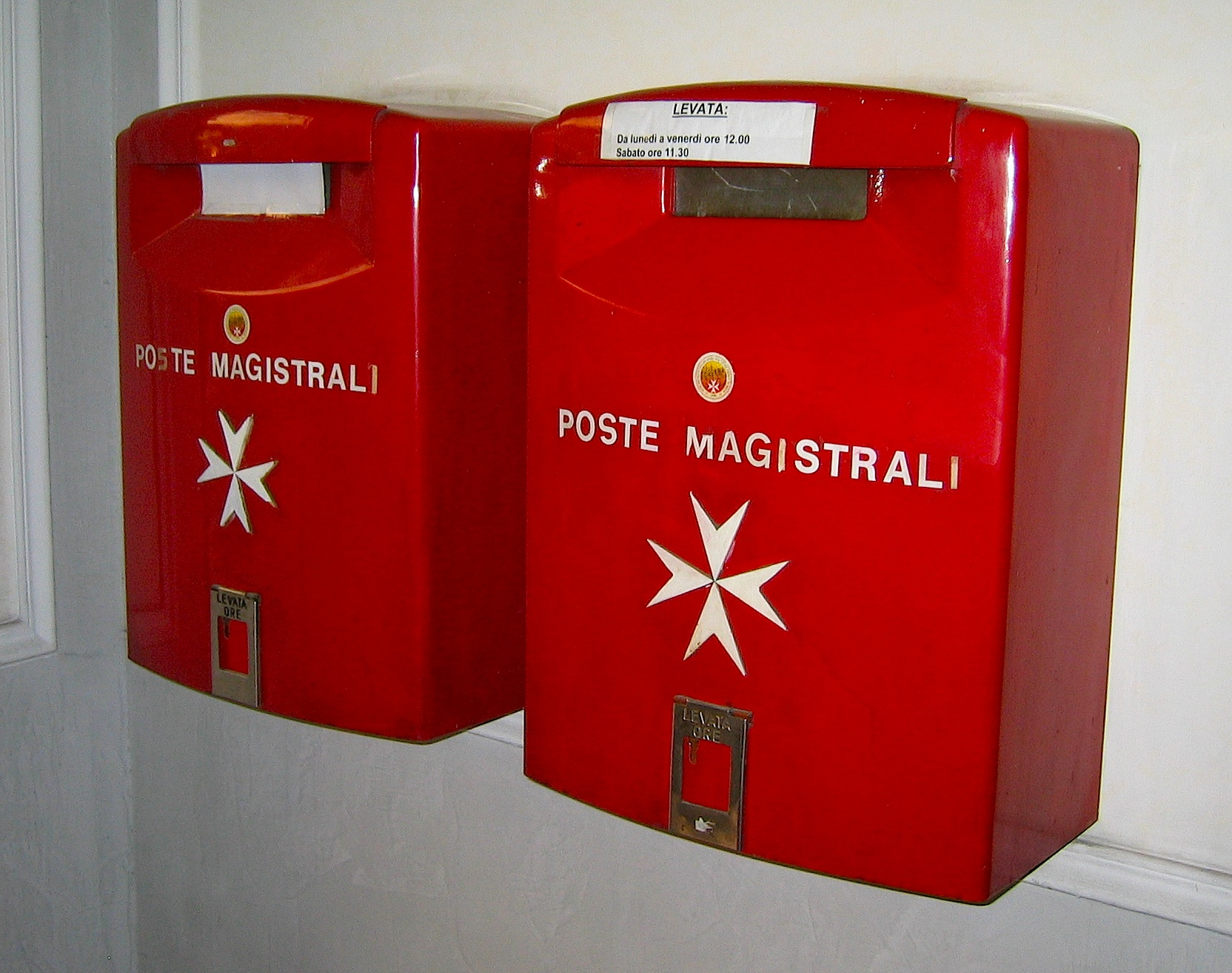 Mail boxes of the Sovereign Military Order of Malta at their own Post Office in Rome